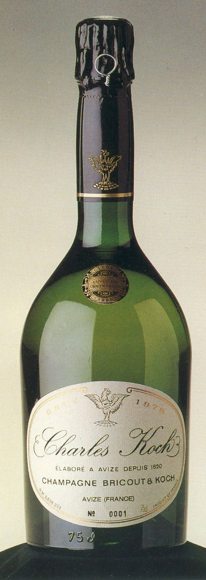 Bottle of Champagne Charles Koch vintage 78 Champagne Bricout et Koch